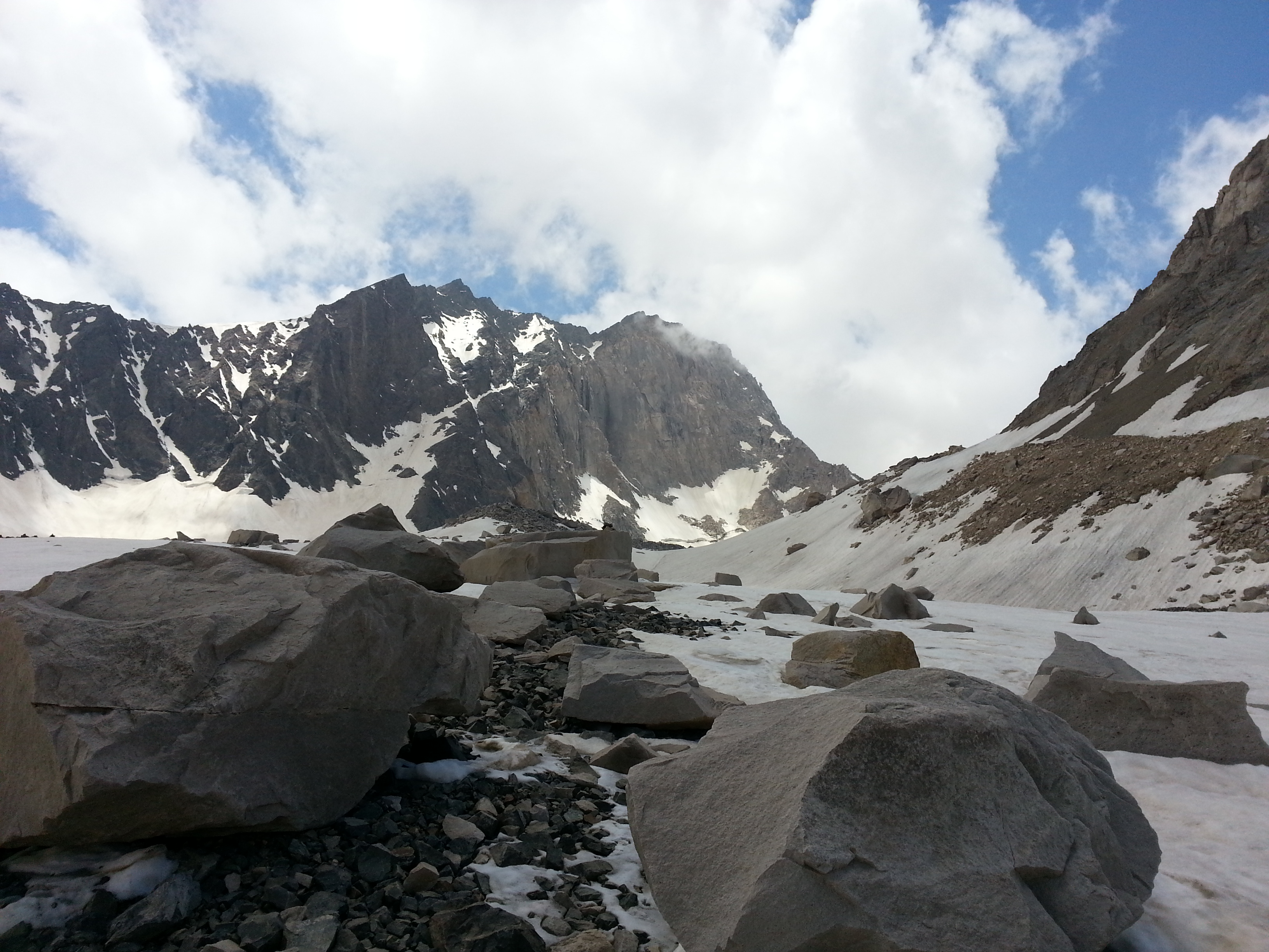 The highets peak of Takht-e Suleyman Massif in Alborz Range with 4848 meters height.